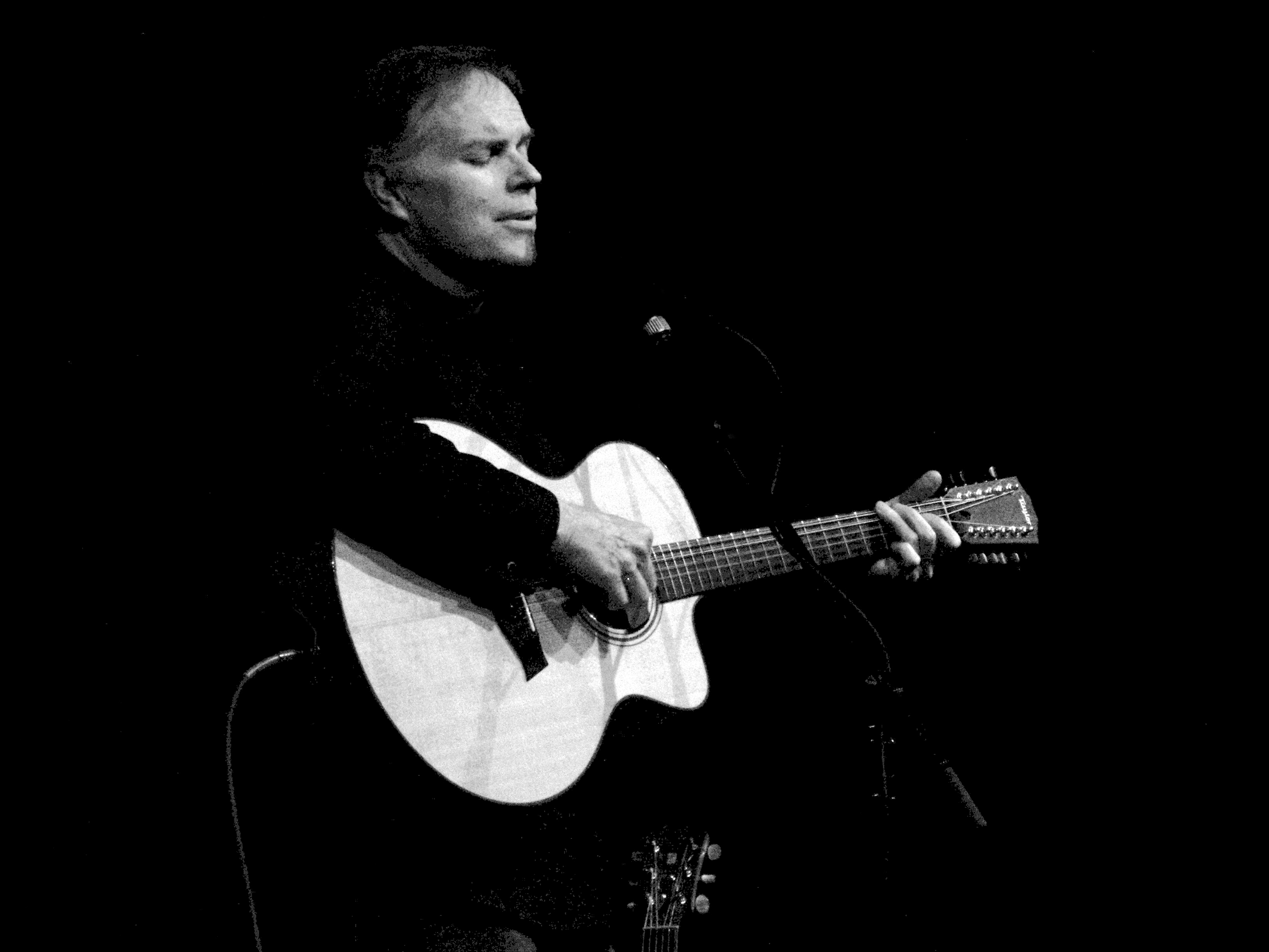 Leo Kottke, Herbst Theatre, San Francisco CA 1/27/07 Photo by Brian McMillen /